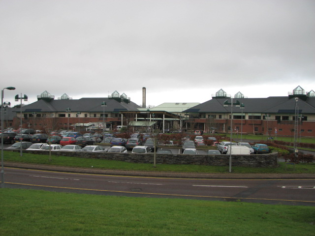 Causeway Hospital Looking across the car-park towards the main entrance.